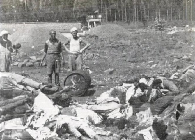 Victims of the Addis Ababa massacre 2